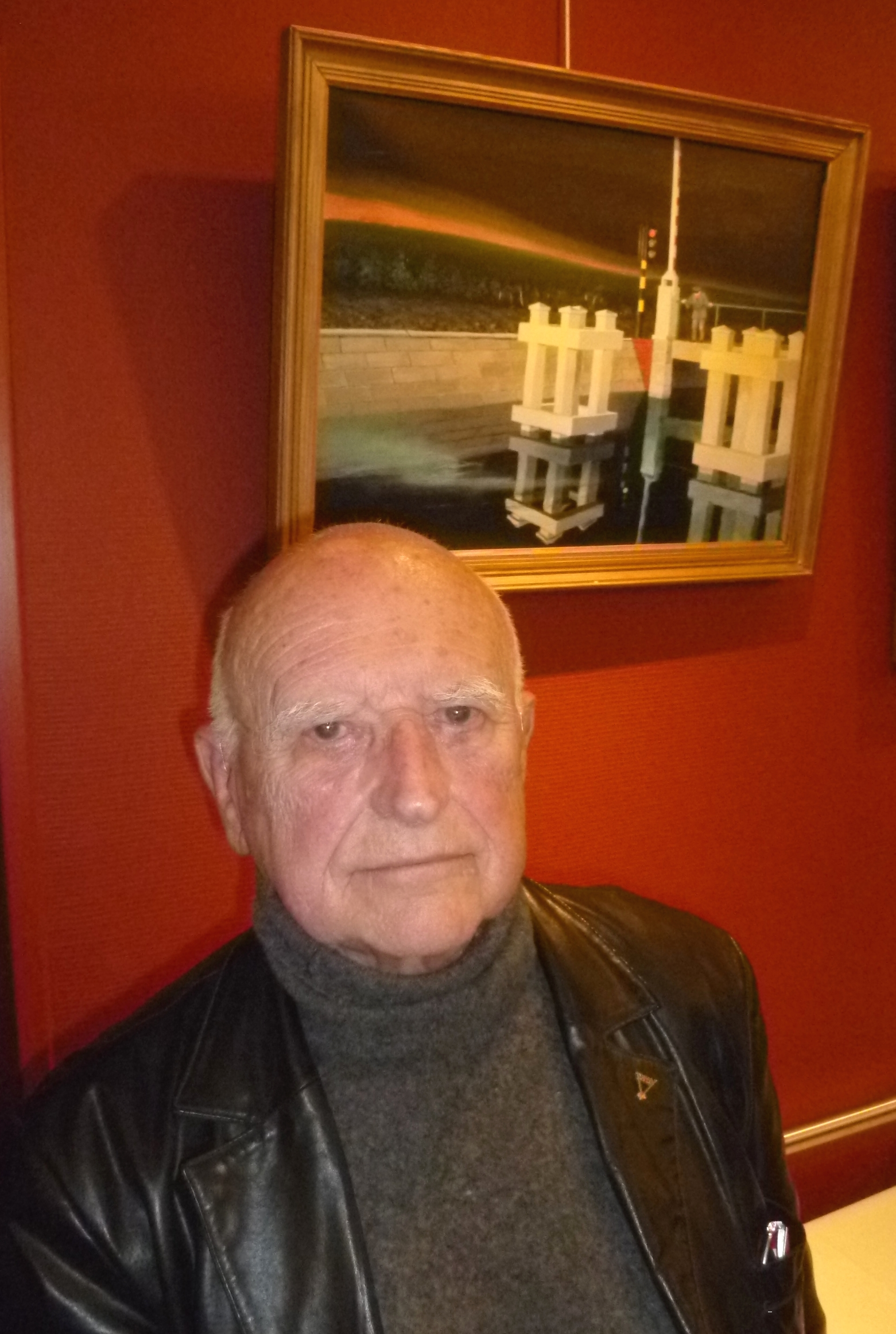 The Belgian filmmaker Raoul Servais standing in front of one of his paintings